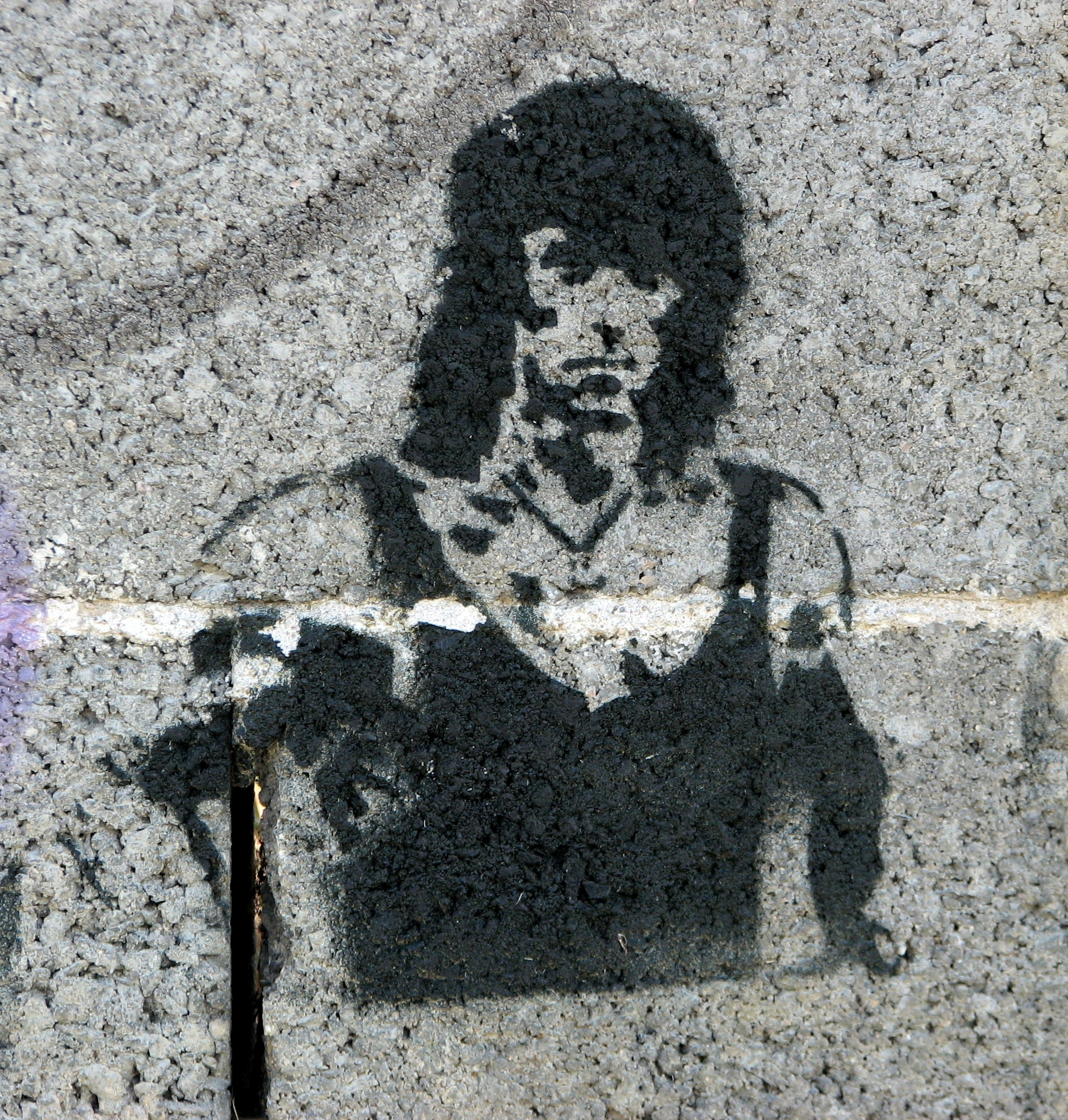 John Rambo, graffiti in Brno - Bystrc on a garden wall